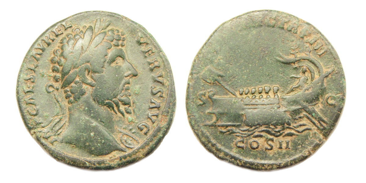 Lucius Verus, AE Sestertius, struck Rome, 163 AD. Obverse: Laureate bust right / IMP CAES L AVREL VERVS AVG. Reverse: Galley rowed right / FELIC AVG TR P III, S - C, COS II in ex.